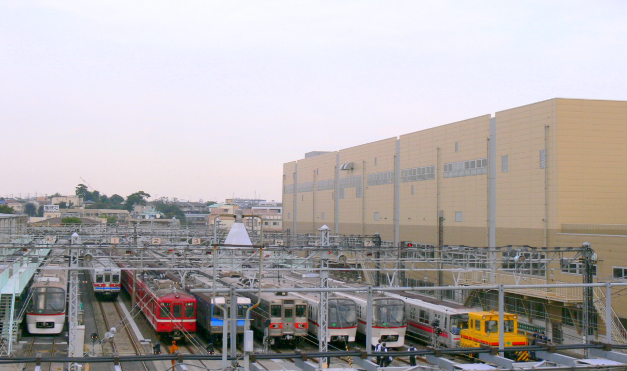 Tokyo Toei Subway Magome Rolling Stock Inspection Depot